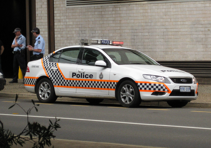 ACT Police vehicle (Ford Falcon FG) and uniformed officers in Canberra, Australian Capital Territory